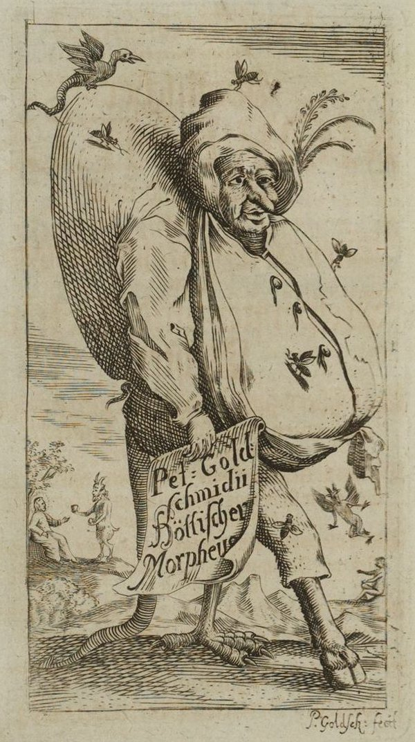 Frontispiece of Peter Godschmidts "Höllischer Morpheus" (Hamburg 1698)